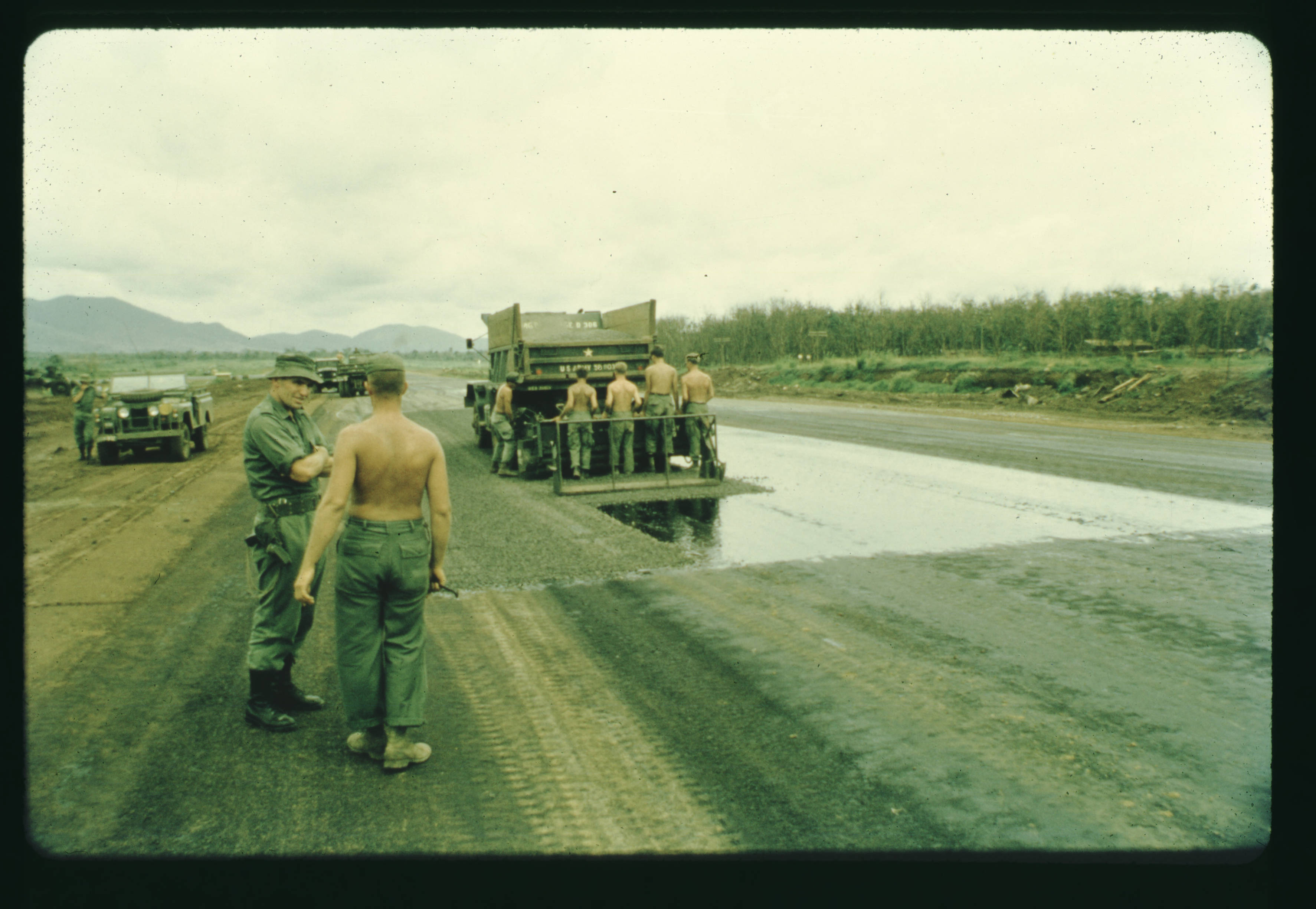 At Luscombe airfield, north of Vung Tau, the 36th Engineer Battalion is assisting the 17th Royal Australian Construction Squadron in grading and surfacing the air strip